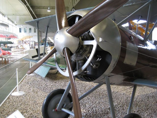 Siemens-Schuckert D.III replica with a Siemens-Halske Sh.I engine fitted (in lieu of an 11-cylinder Sh.III normally fitted)